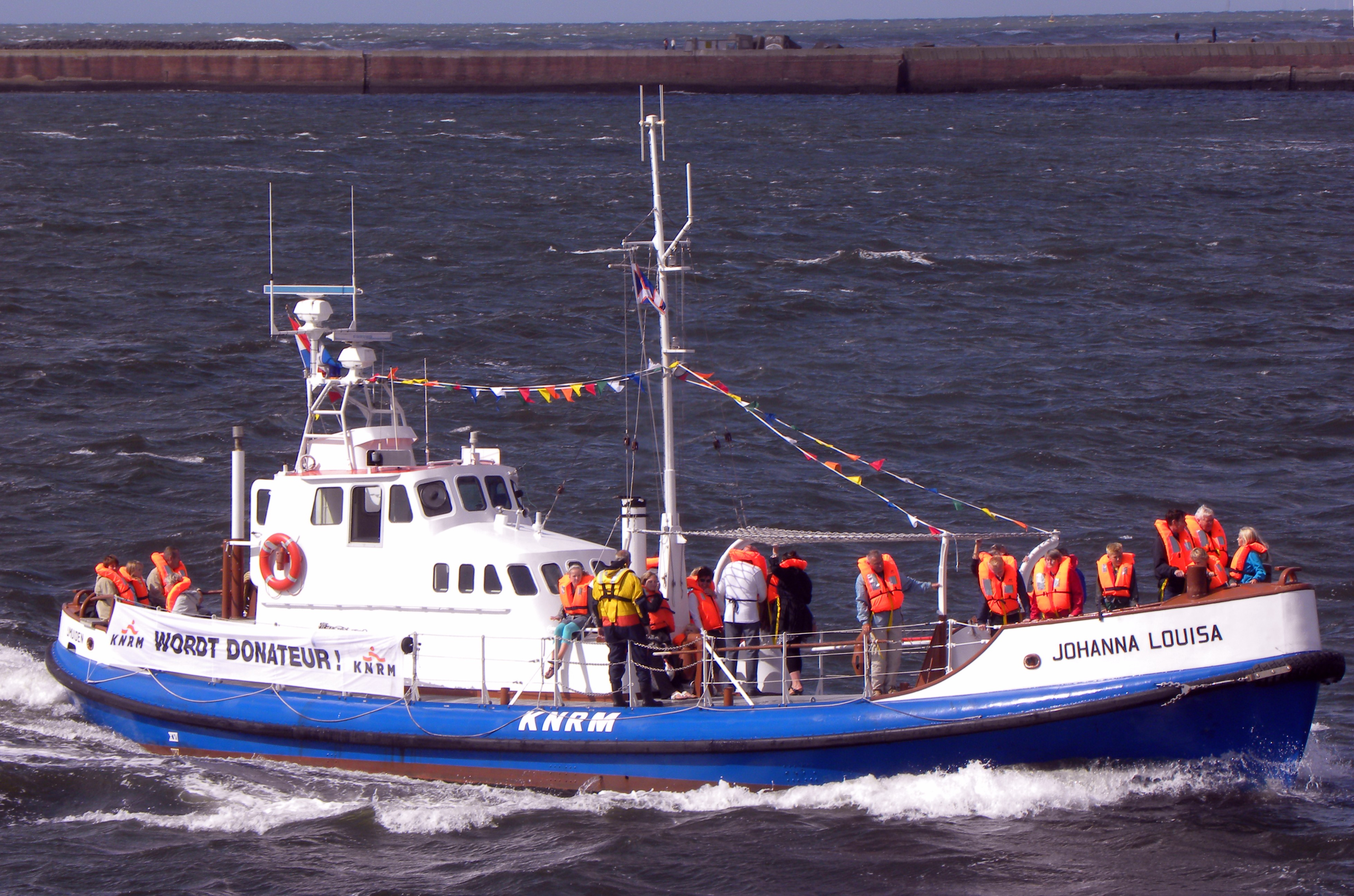 Johanna Louisa KNRM this lifeboat used to be in active service in ijmuiden from 1968 to1993 . now its used for promotional activities